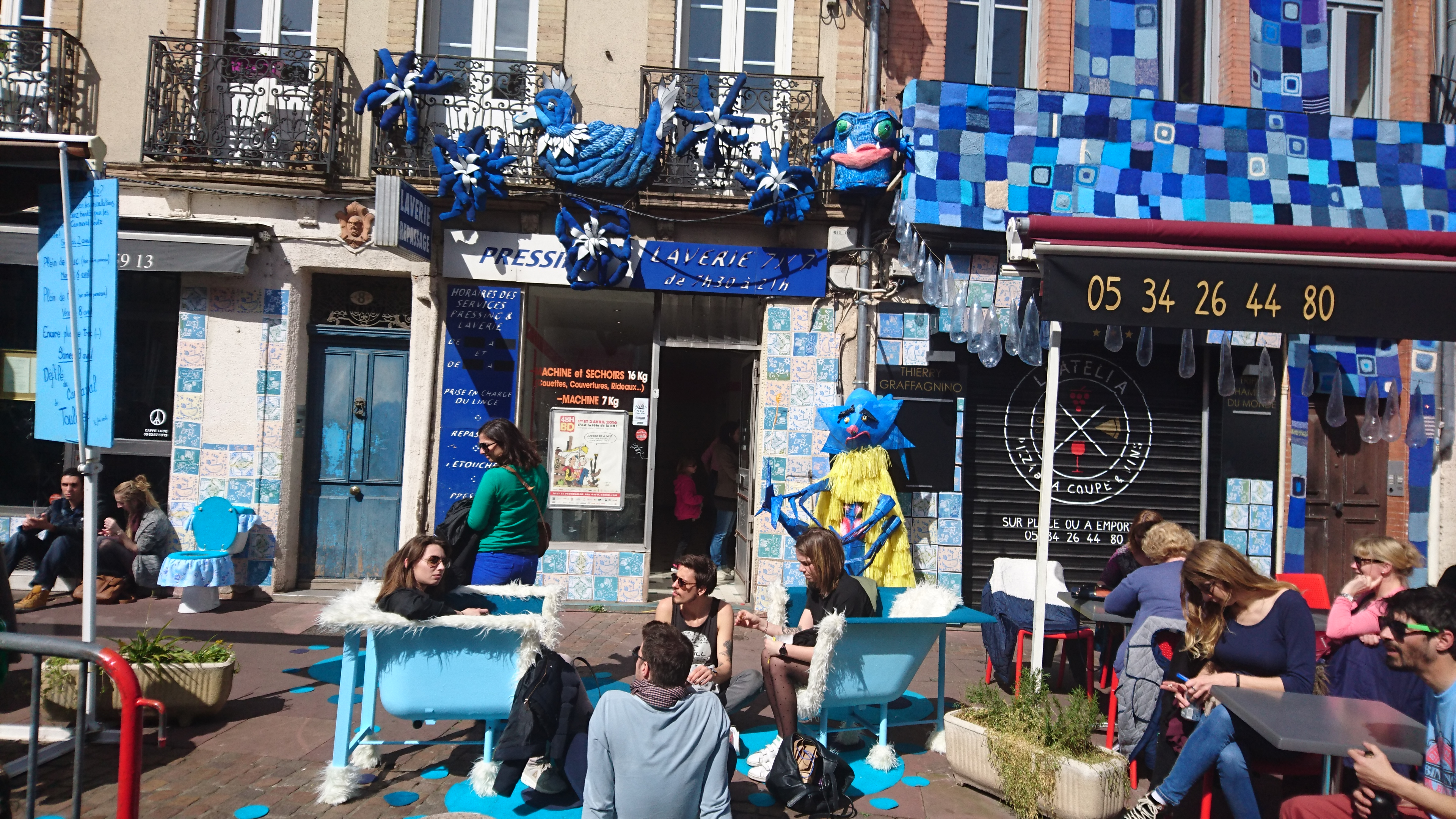 "Si on déguisait la Ville" - décorations place de l'Estrapade